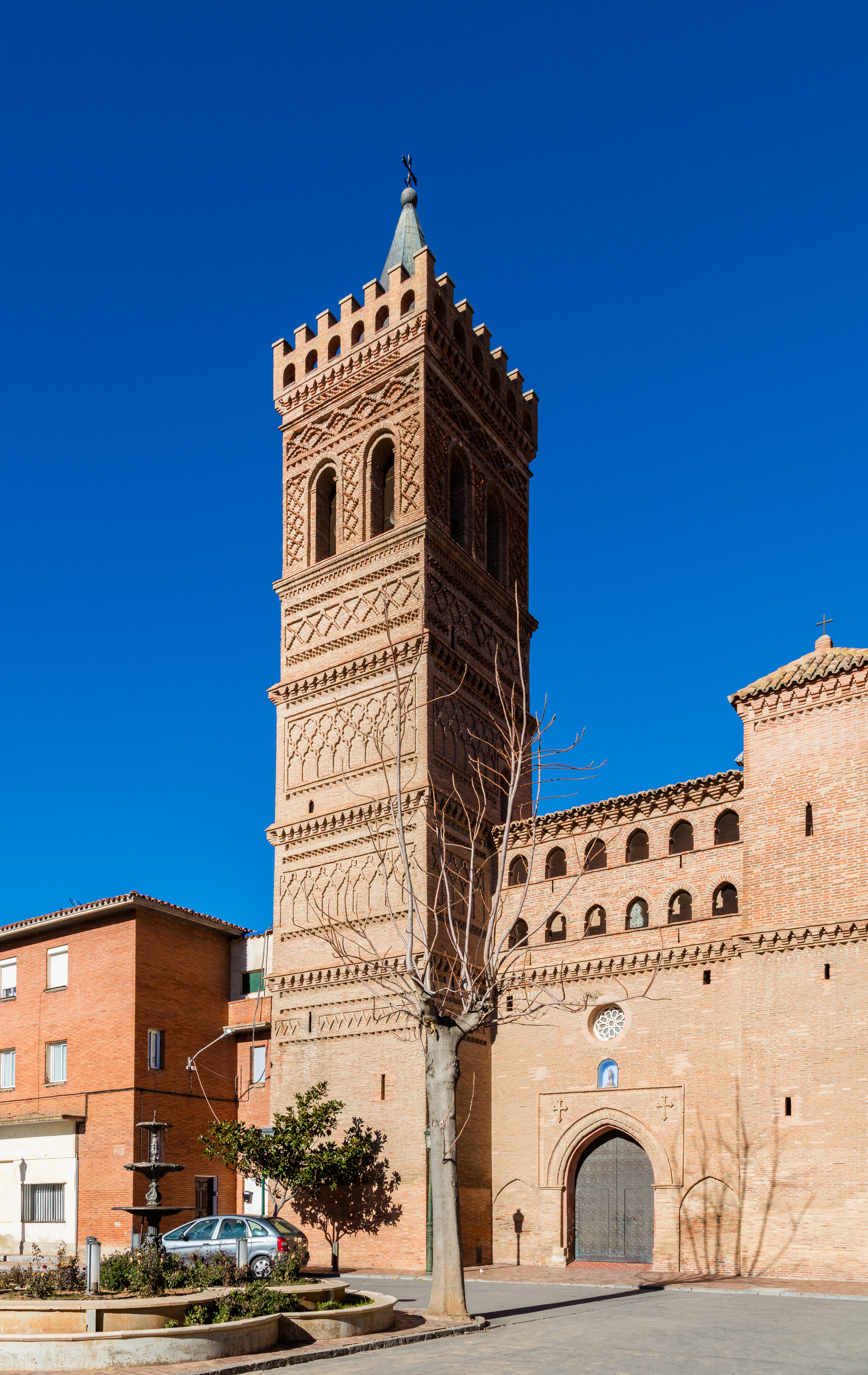 Church of St John the Baptist, Herrera de los Navarros, Zaragoza, Spain